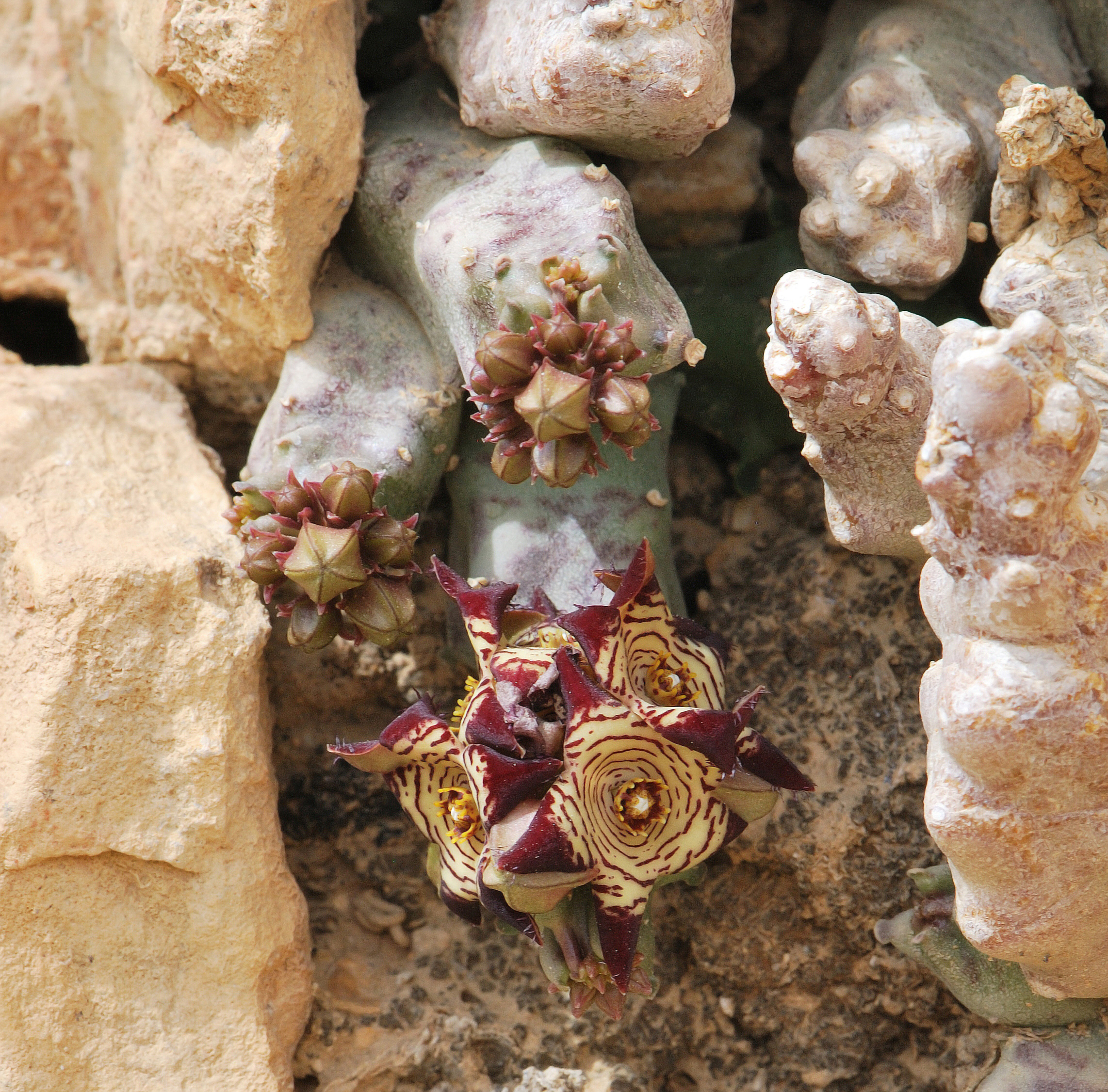 Apteranthes europaea subsp. negevensis, March 5 2010, Negev Mountains, Israel.